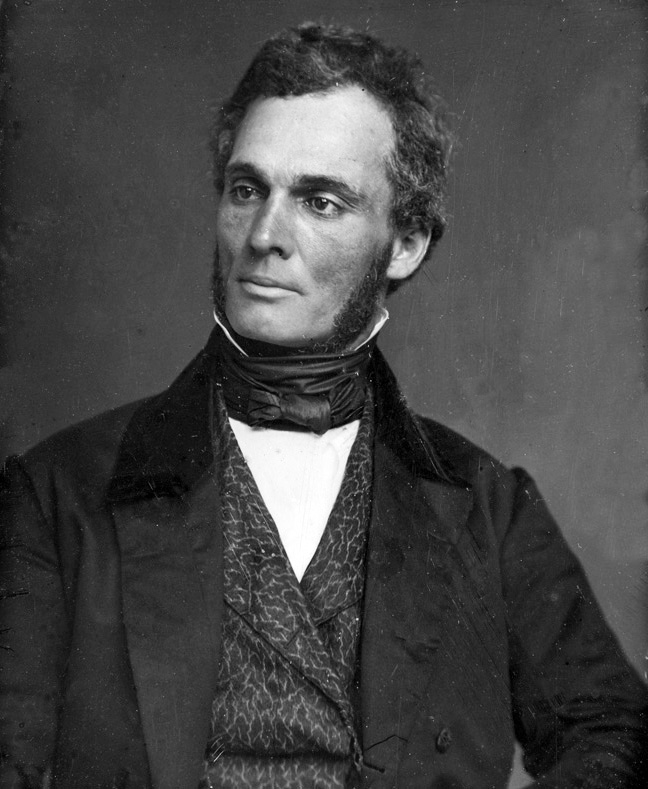 Robert Purvis (1810–1898), a 19th-century American abolitionist, was the son of a British cotton broker and a mixed-race mother of North African and German Jewish descent. He founded abolitionist groups including the American Anti-Slavery Society and the Pennsylvania Abolition Society. Courtesy of the Boston Public Library